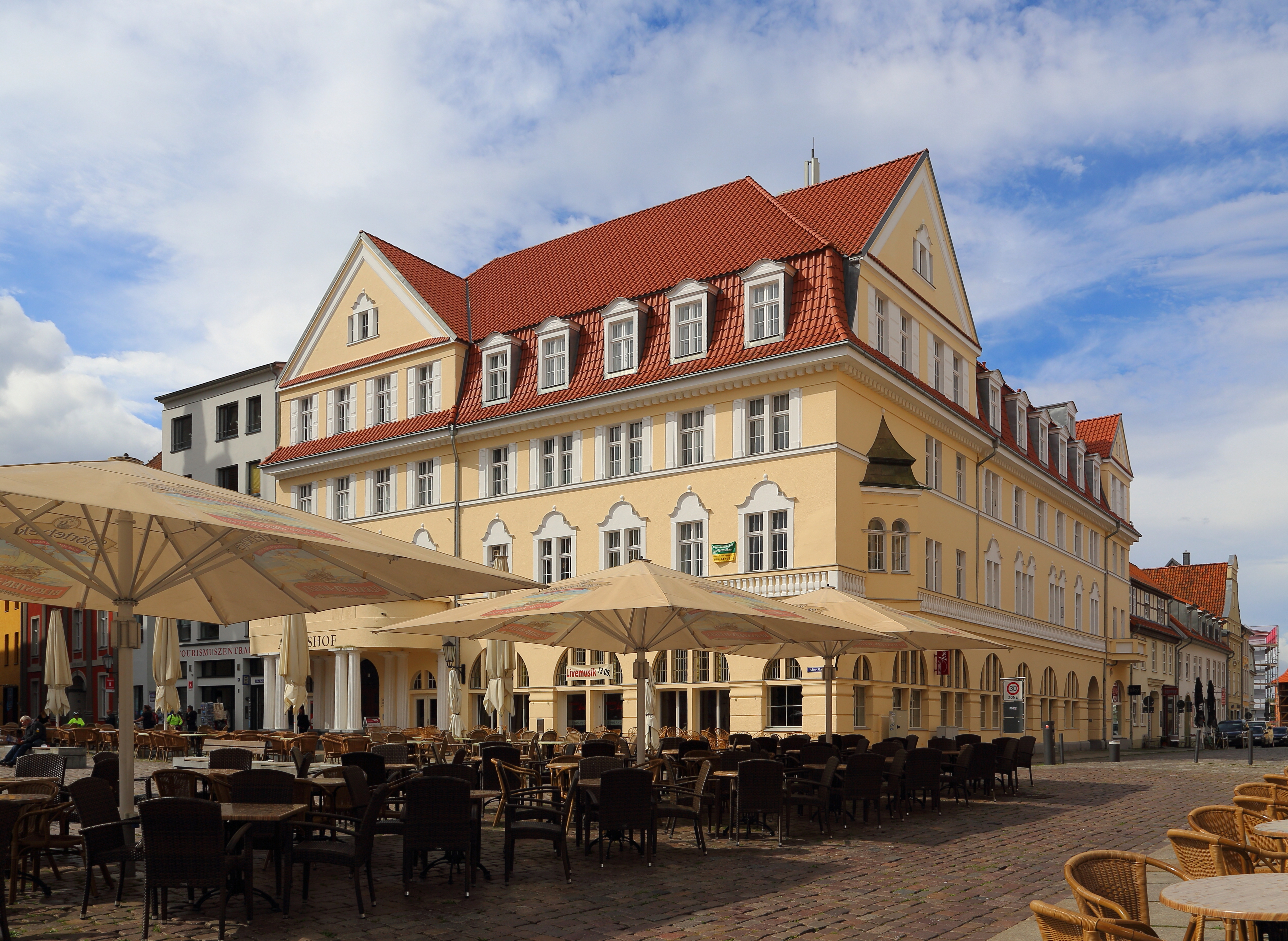 The restaurant Artushof at the Old Market Square (Alter Markt) in Stralsund, Landkreis Vorpommern-Rügen, Mecklenburg-Vorpommern, Germany.